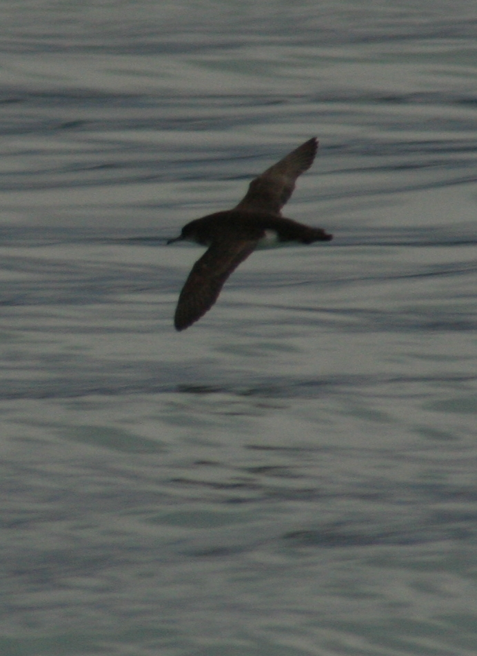 Hutton's Shearwater (Puffinus huttoni), Kaikoura